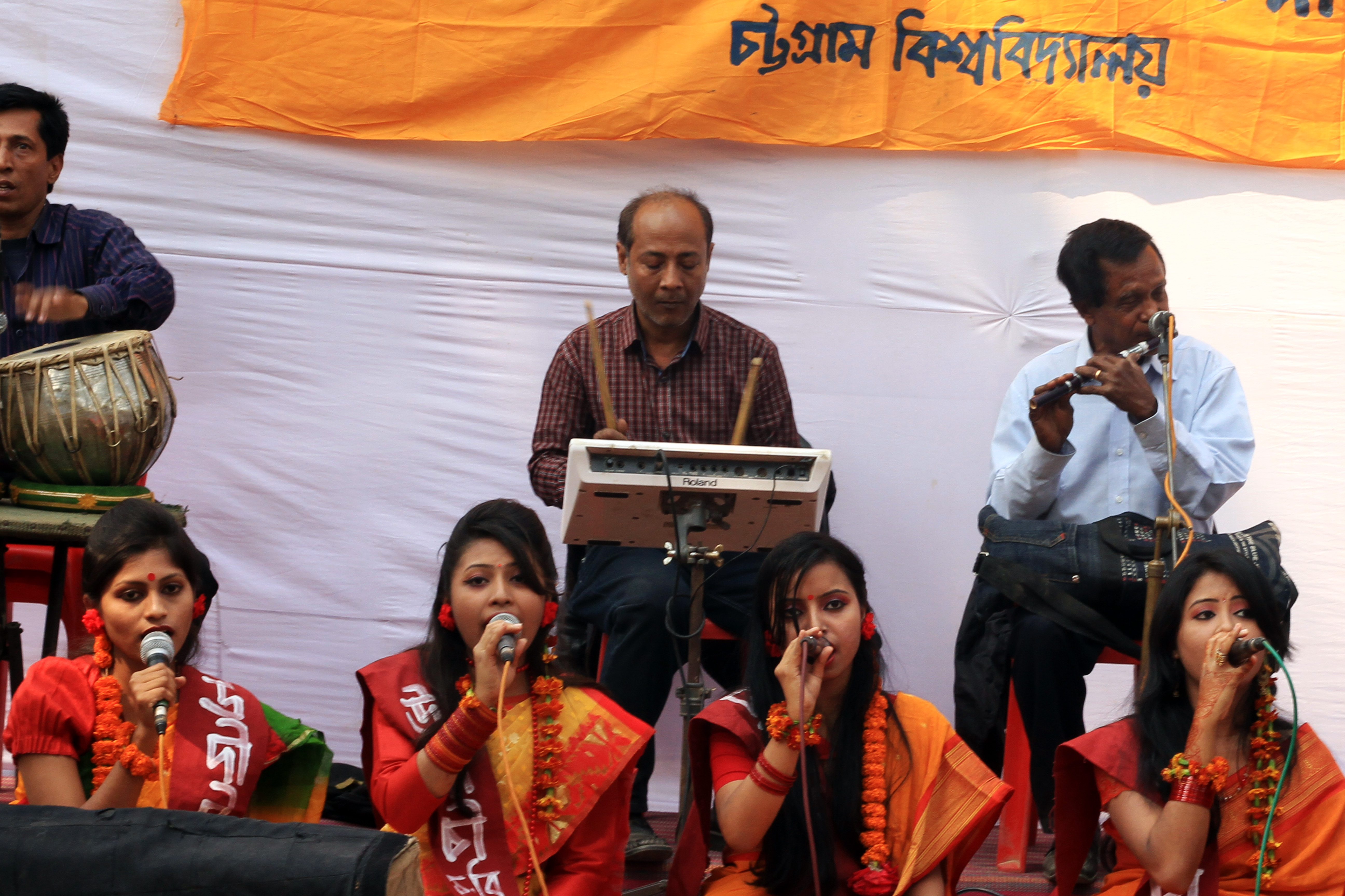 Student celebrates Pohela Falgun at Muktamancha in University of Chittagong